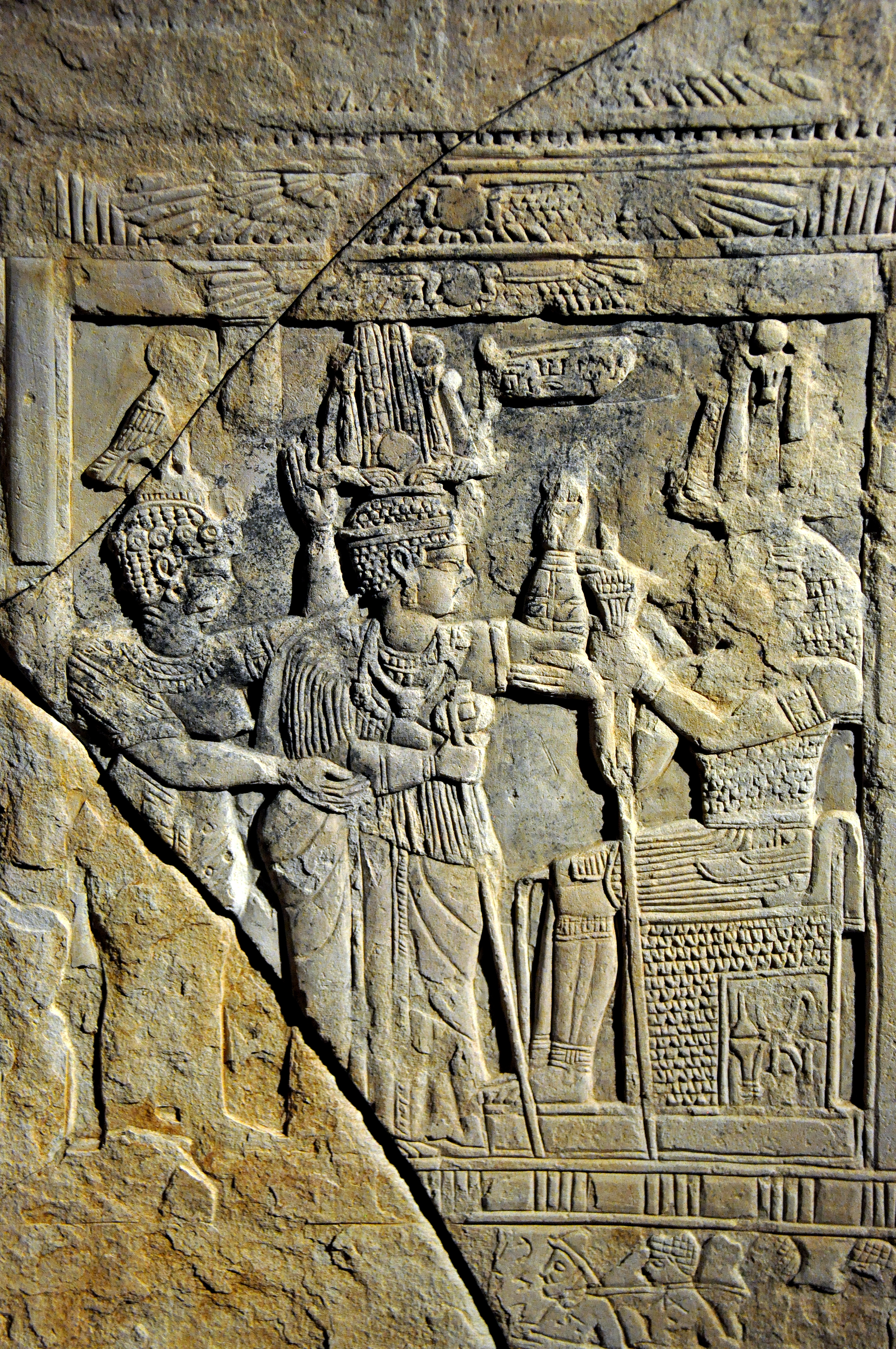 Detail of the stele of Queen Amanishakheto. She stands between the goddess Amesemi and the god Apedemak. Sandstone. From the Amun Temple at Naqa (also Naga), in modern-day Sudan. Meroitic period, 1st century CE. State Museum of Egyptian Art, Munch, Germany.